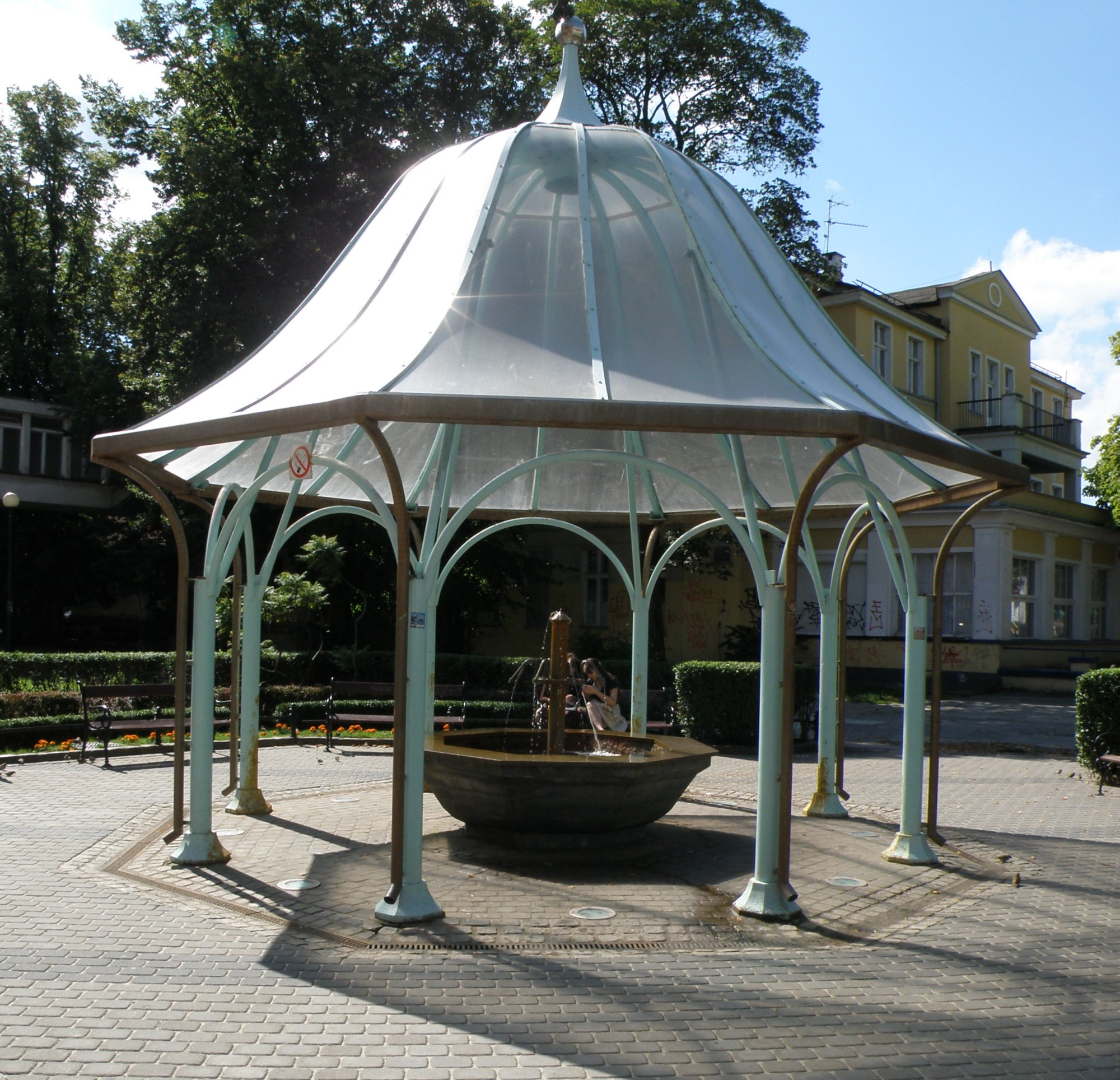 Town water fountain under a glass pavilion. Located in Sopot, Pomeranian Voivodeship, Poland.